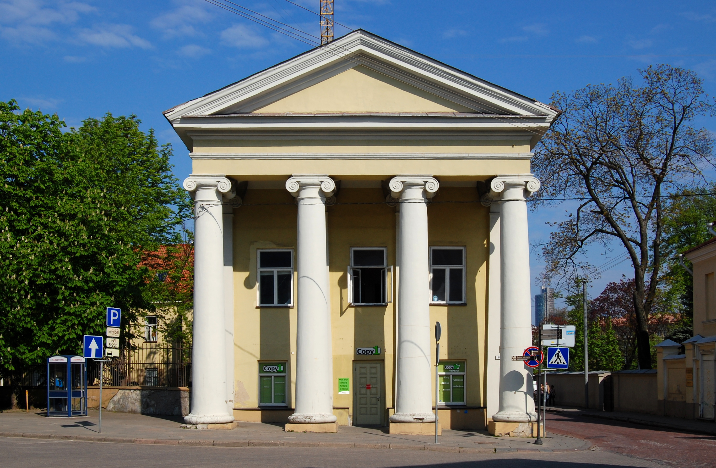 Building in Vilnius, Lithania.